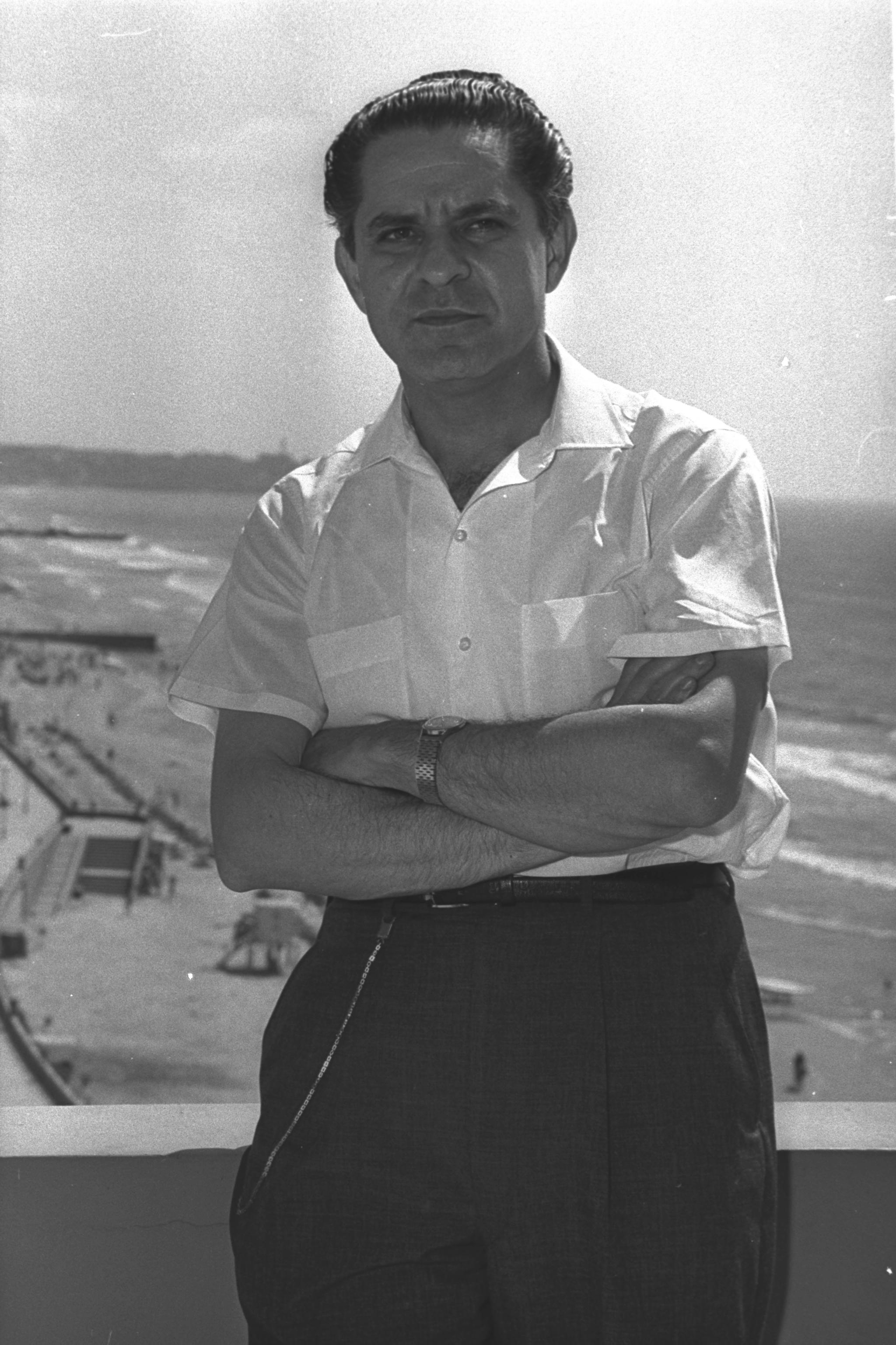 LEONARD ROSE, CELLIST, IN TEL AVIV FOR THE FIRST ISRAEL INTERNATIONAL MUSIC FESTIVAL